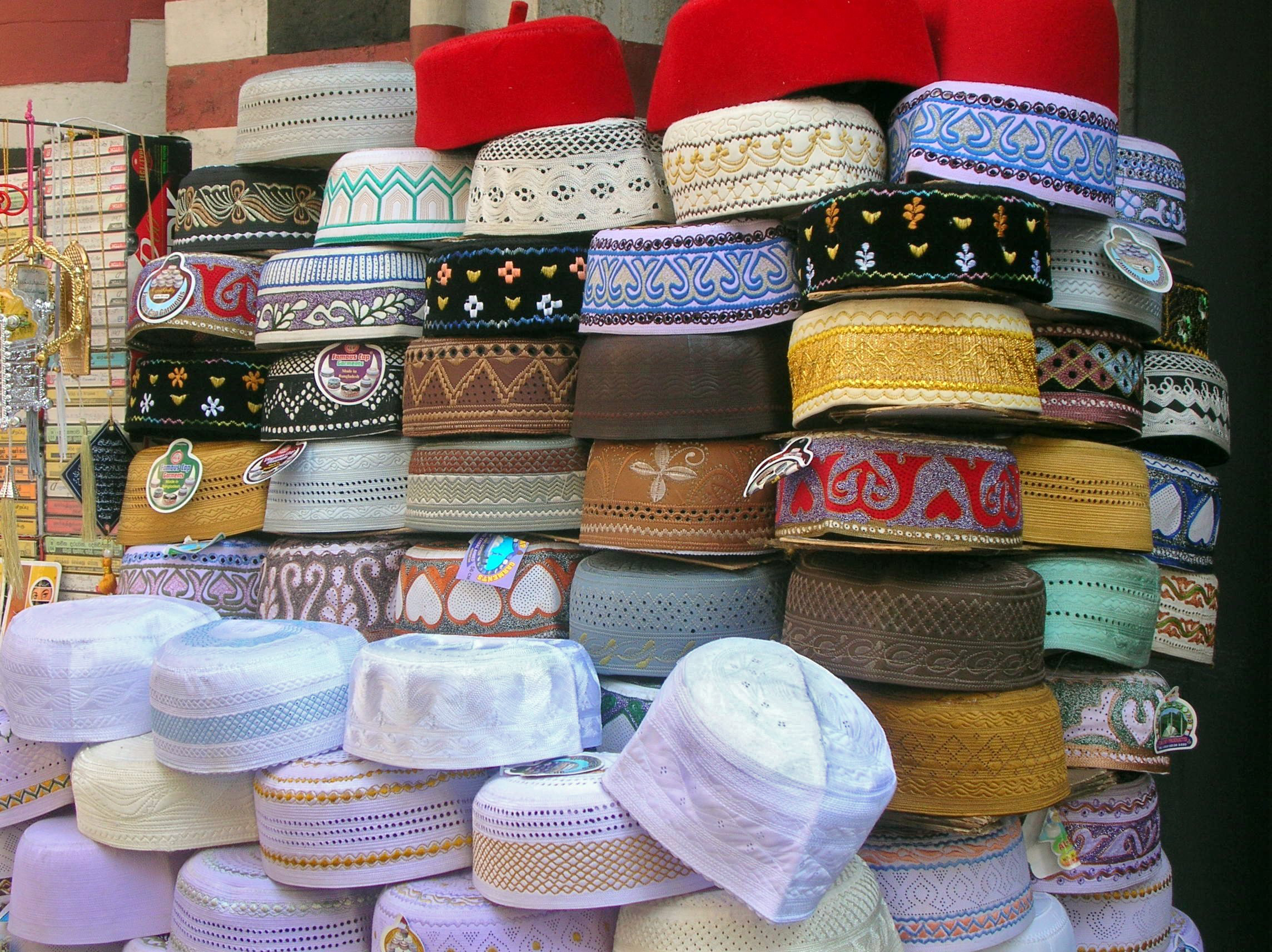 Taqiyah (or kufi caps) in Pettah market, Colombo, Sri Lanka